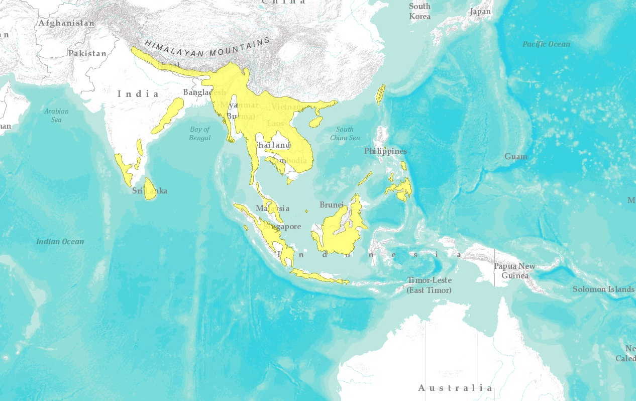 Distribution map of the Crested Goshawk Accipiter trivirgatus.